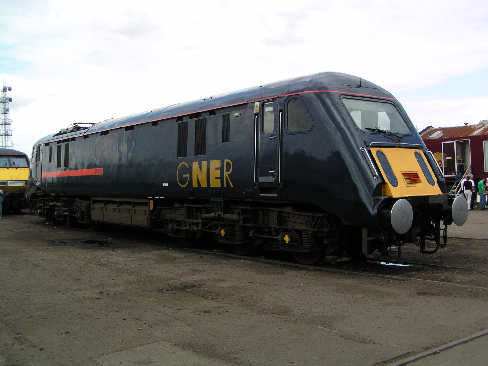 BR Class 89, no. 89001 at Doncaster Works on 27th July 2003.